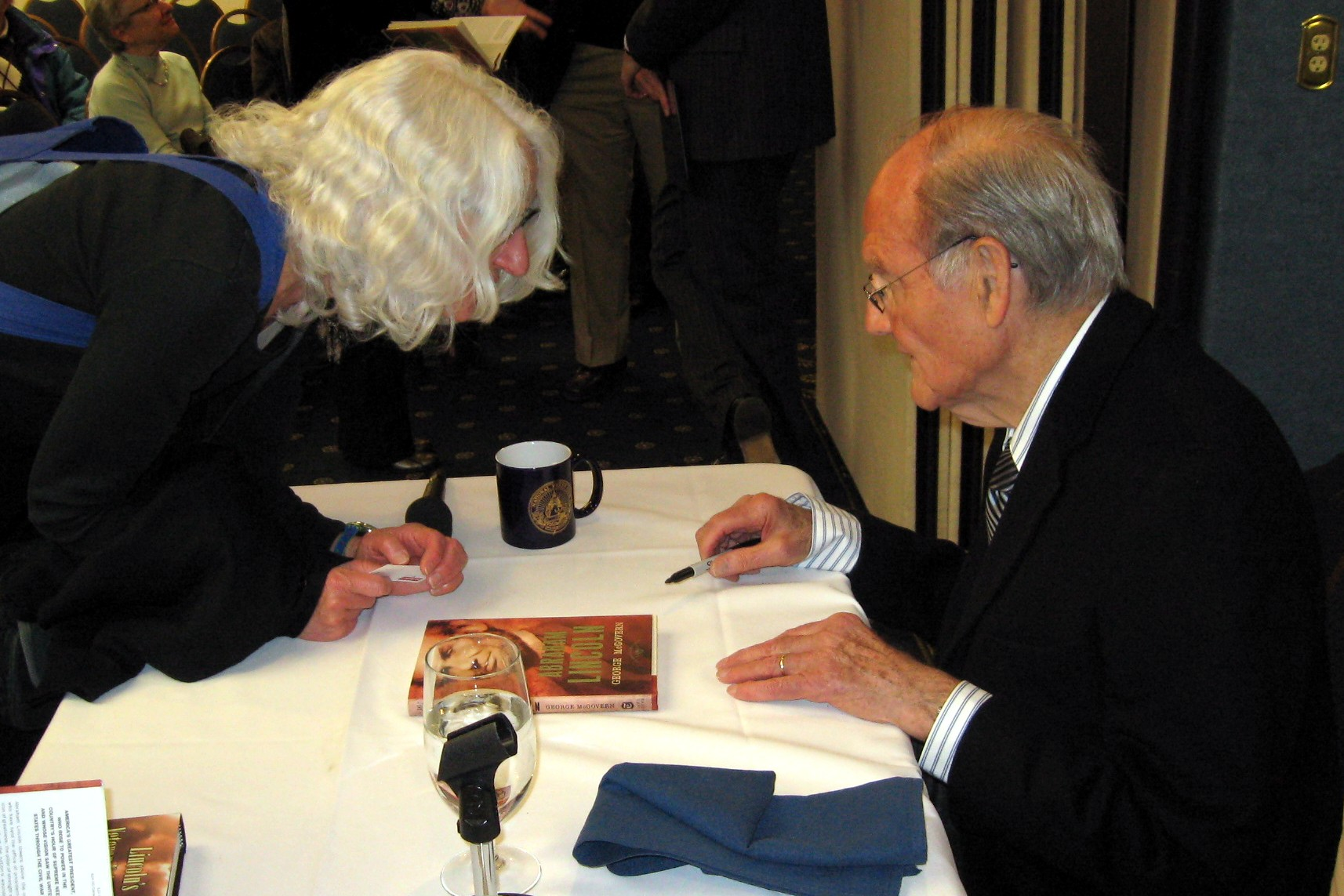 ... discussing global hunger and nutrition. National Press Club, Washington, DC